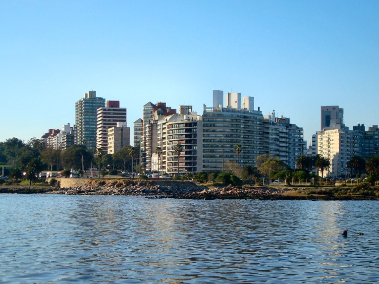 Skyline of Punta Carretas, Montevideo, Uruguay, as seen from the cape.